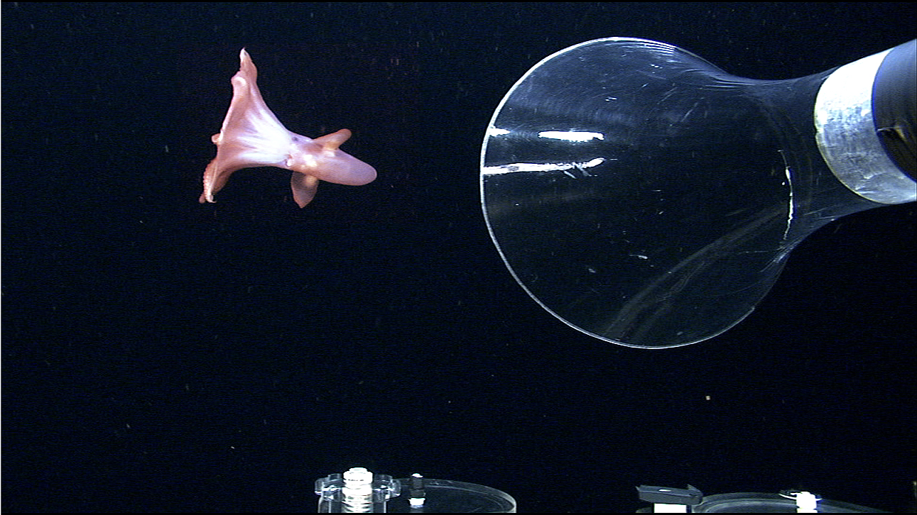 Cirroteuthis muelleri The ROV’s suction device is on as it makes an approach to capture “Oliver,” an octopus floating just a few feet away. Image courtesy of The Hidden Ocean, Arctic 2005 Exploration, NOAA-OE.